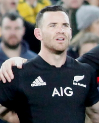 2017.08.19.20.03.23-NZL anthem 2017 Rugby Championship, Bledisloe 1, Australia vs New Zealand, 19th August, ANZ Stadium, Sydney